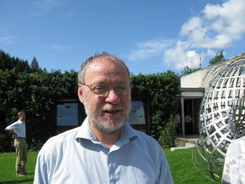 Uffe Haagerup, Oberwolfach 2008